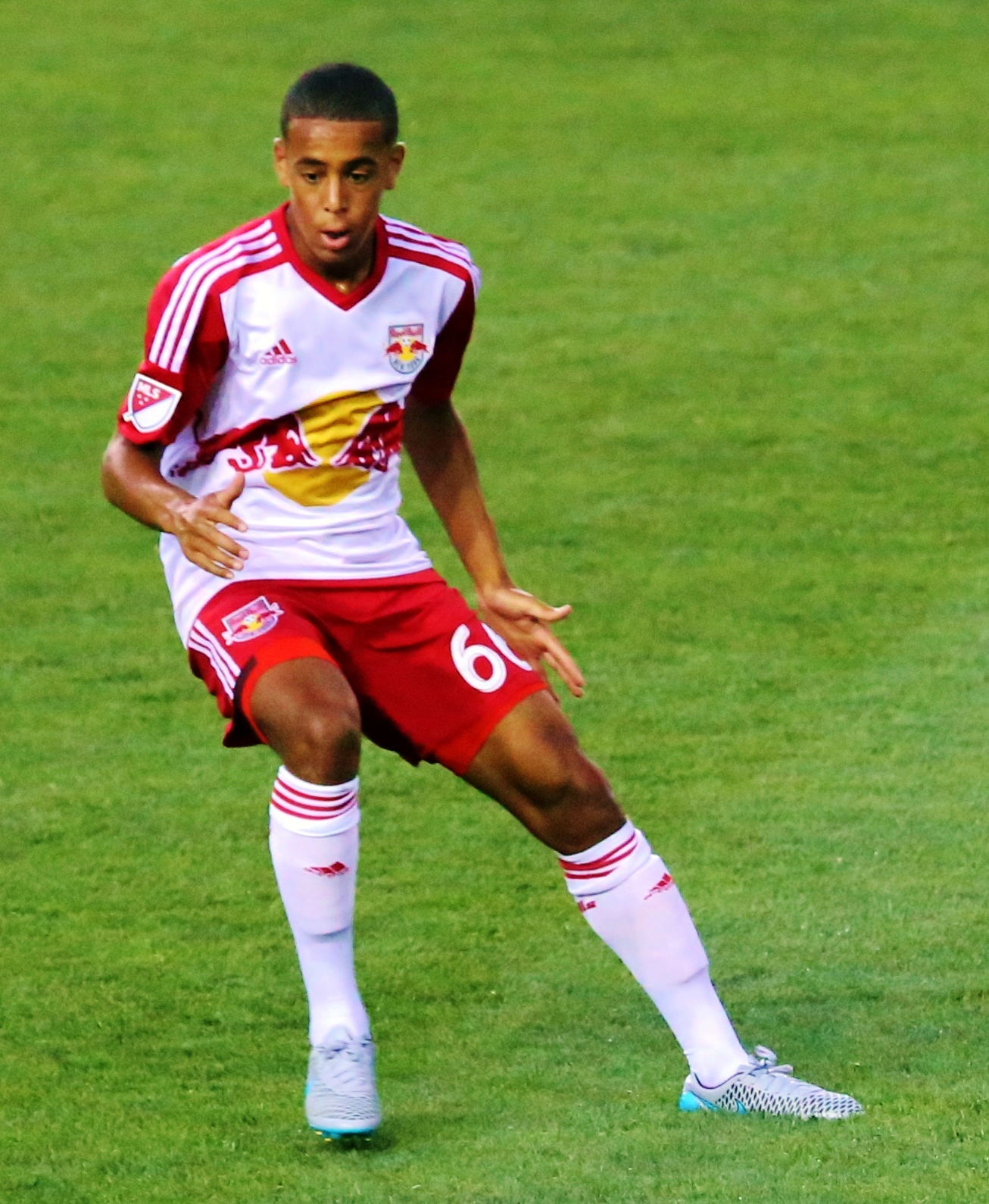 Tyler Adams